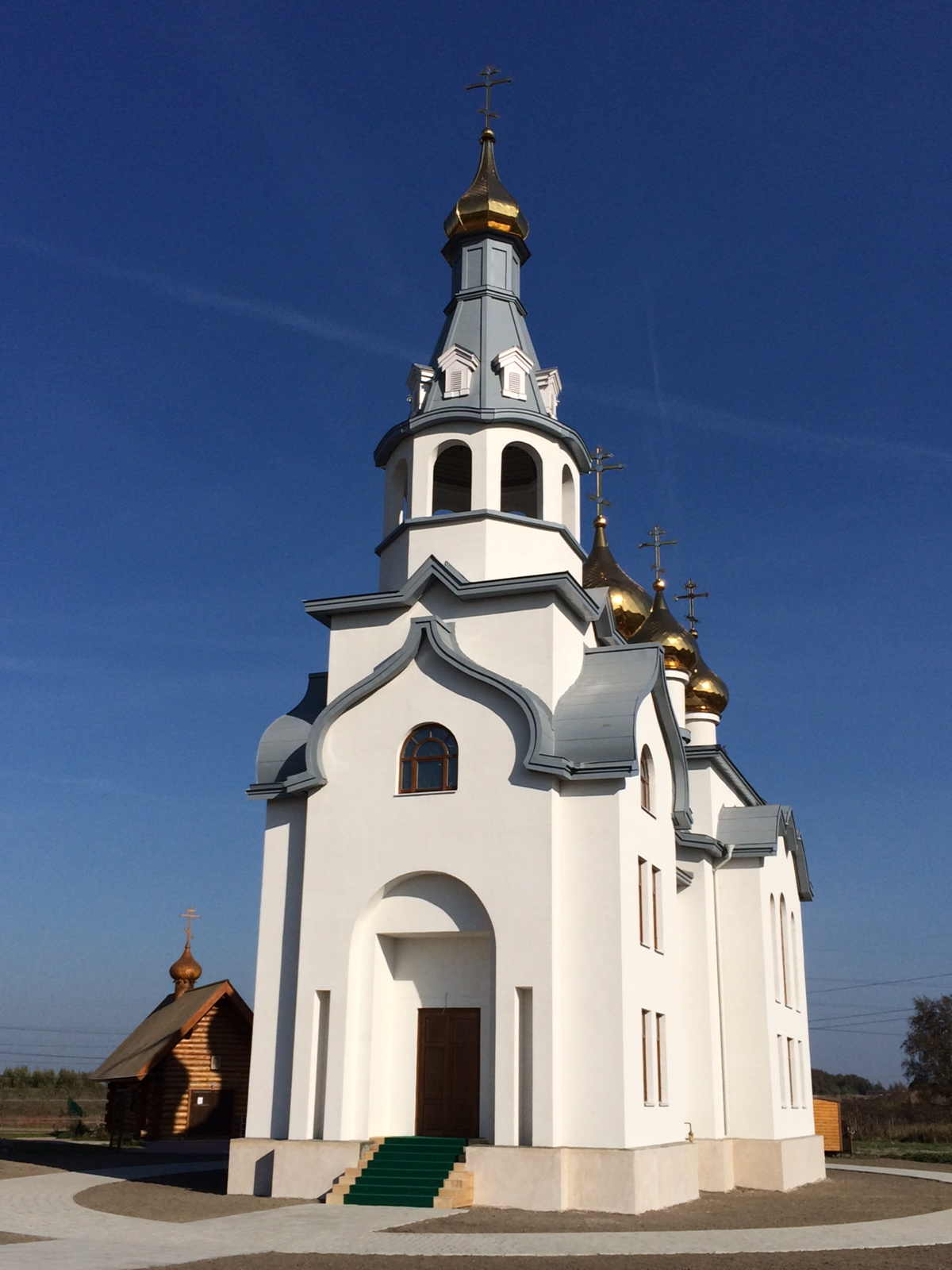 Nativity of the Mother of God church in Glinka village (Leningrad region)